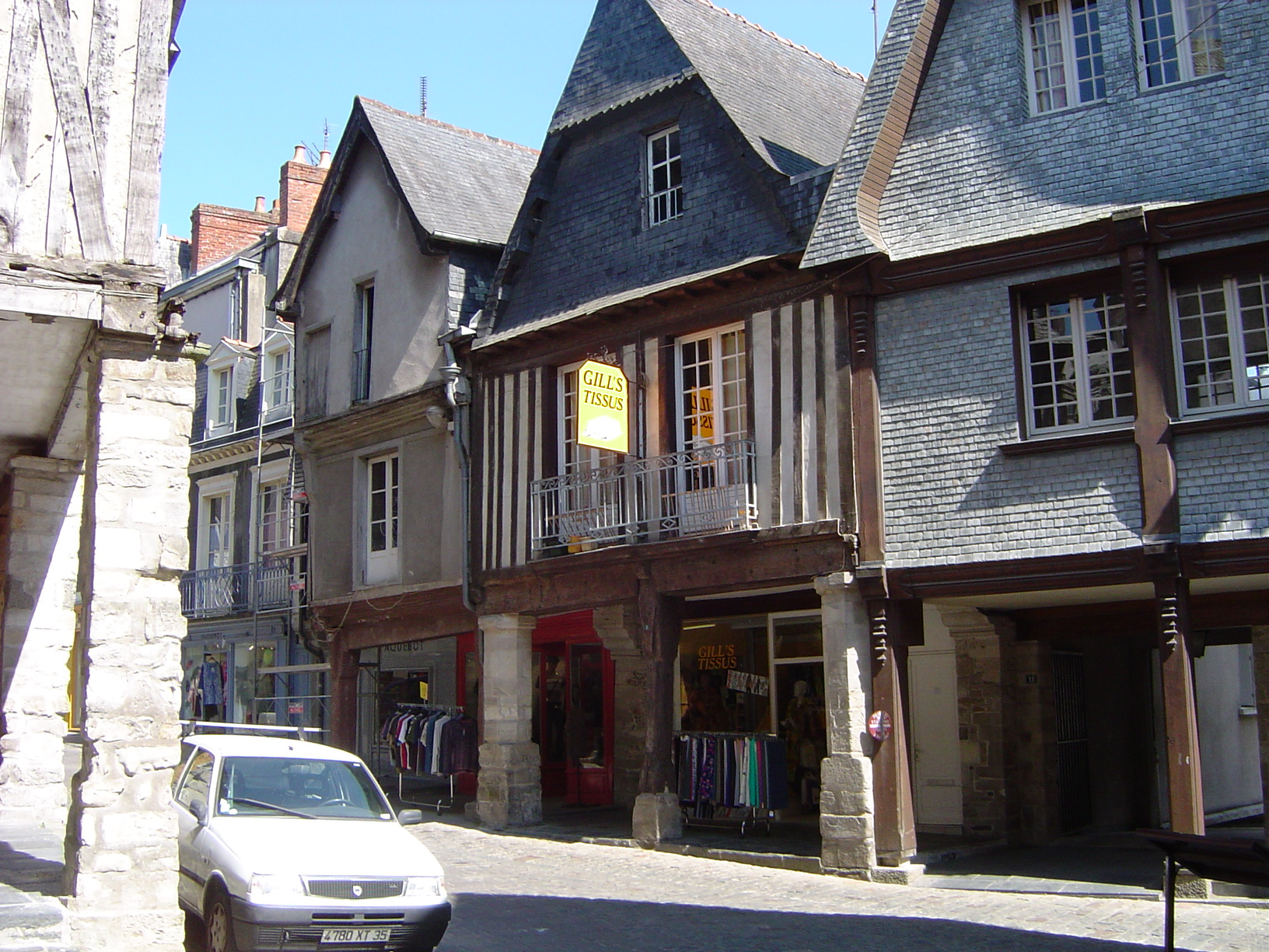 Houses at n°7, 9 and 11, rue de la Poterie, Vitré, Brittany, France. With the most concentration of house's porches in Brittany.